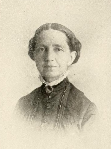 Photographic portrait of American reformer and suffragette Sarah Burger Stearns (b. November 30, 1836). From American Women: Fifteen Hundred Biographies with Over 1,400 Portraits, Frances E. Willard and Mary A. Livermore, editors. Mast, Crowell & Kirkpatrick, 1897 (revised edition from 1893), vol. 2, p. 681